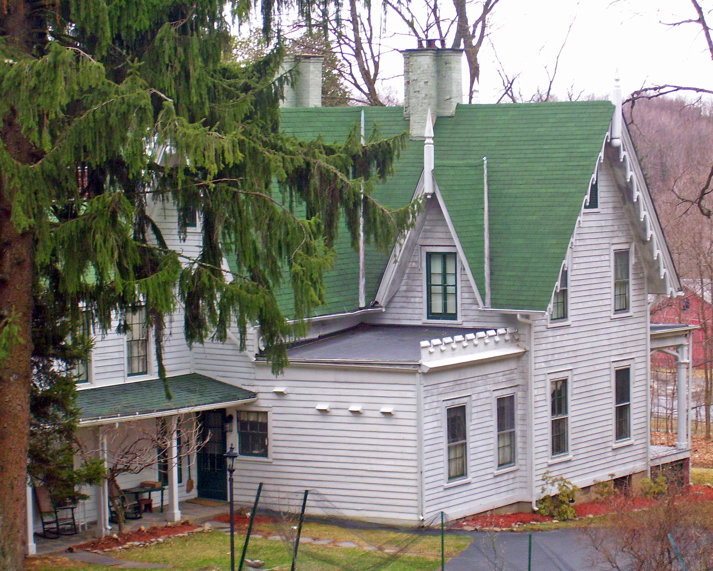 Dodge-Greenleaf House, along NY 211 in Otisville, NY, USA